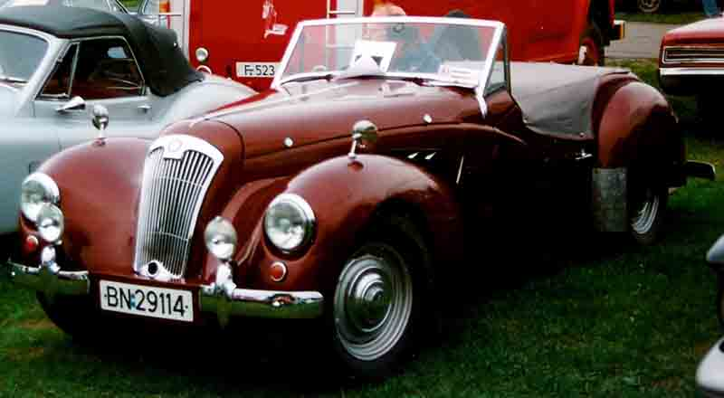 Lea-Francis Eighteen, 2½-Litre Sports Roadster